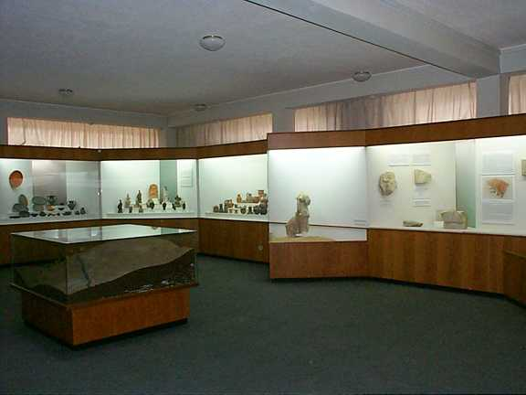 Finds of the Hellenistic period from Petres and Agios Pandeleimon Hill, image from the Archaeological and Byzantine Museum, Florina, West Macedonia, Greece